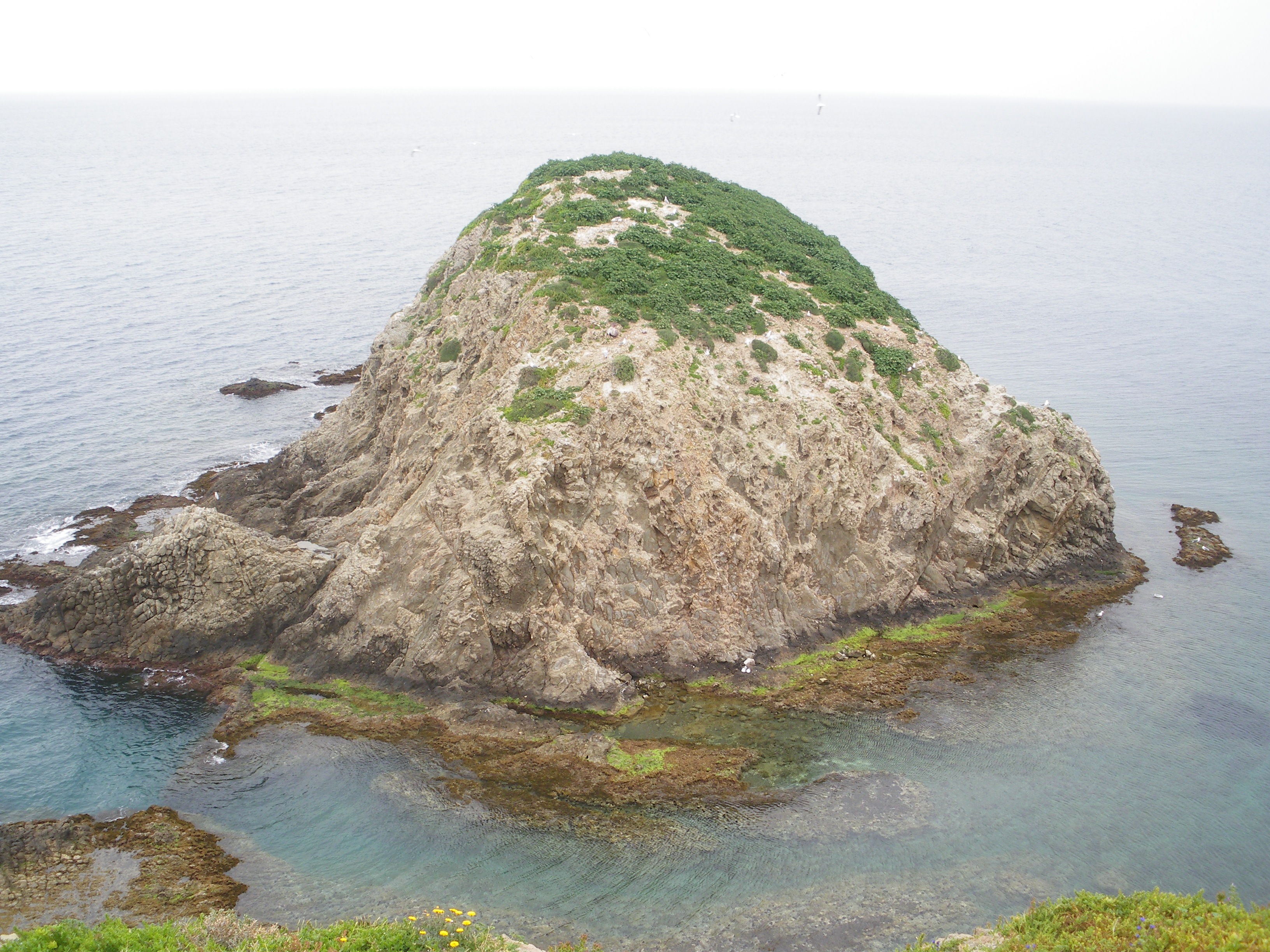 Island which gives its name to the core population